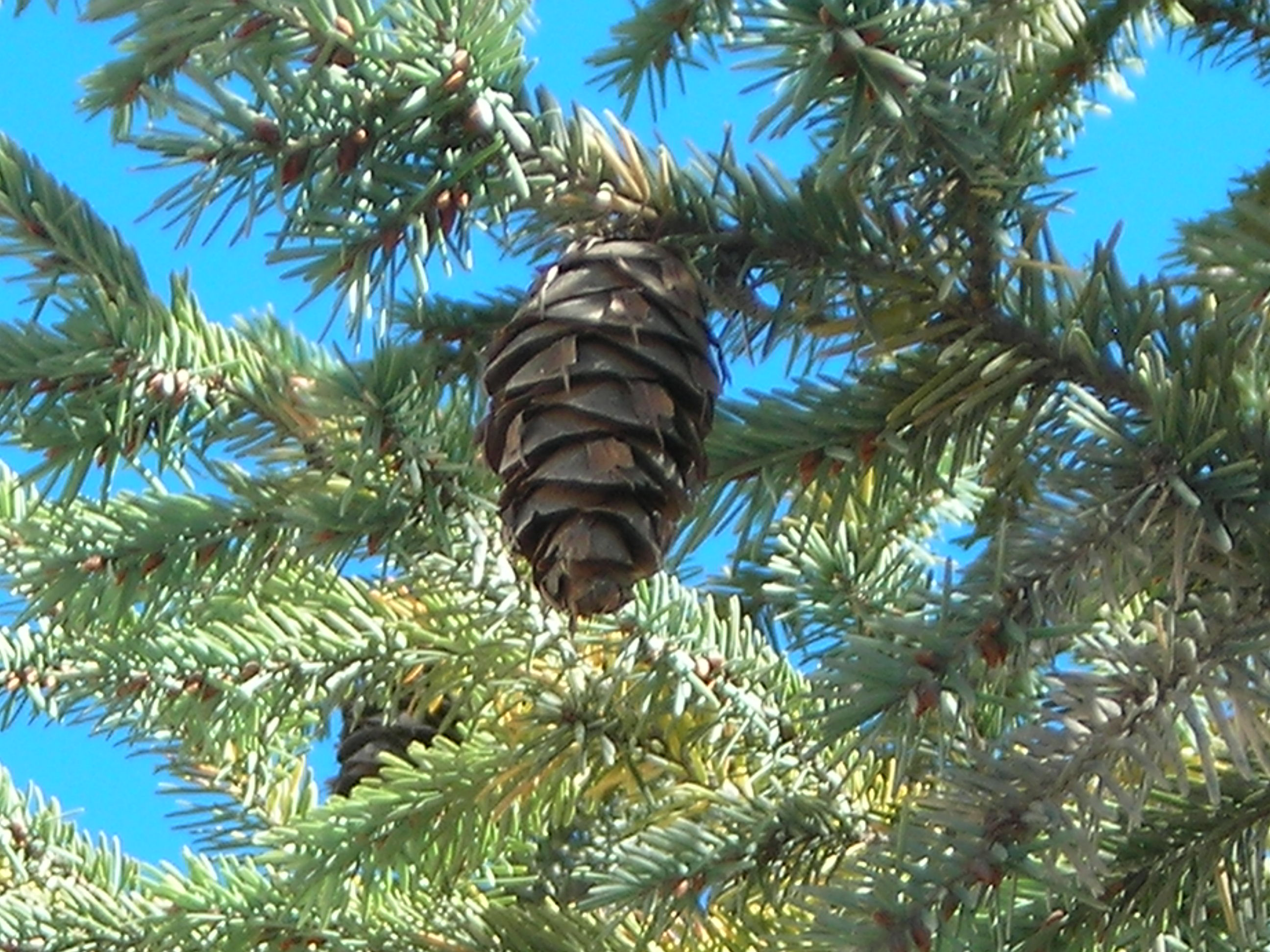 Taken by A. Gonzalez Rodriguez and P. Gugger (2007)